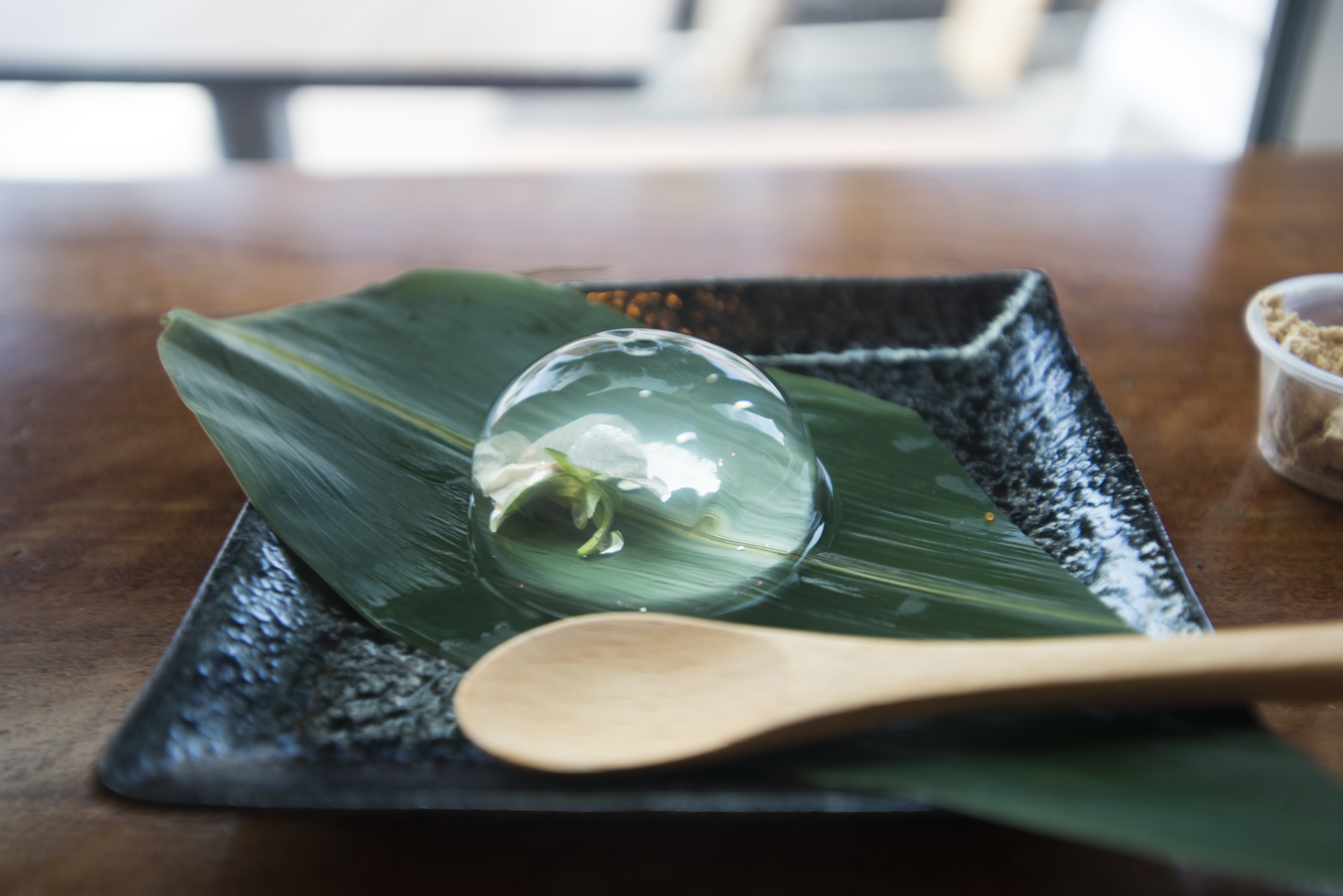 A raindrop cake is a Japanese dish made from water and agar that resembles a bead of water on a surface.